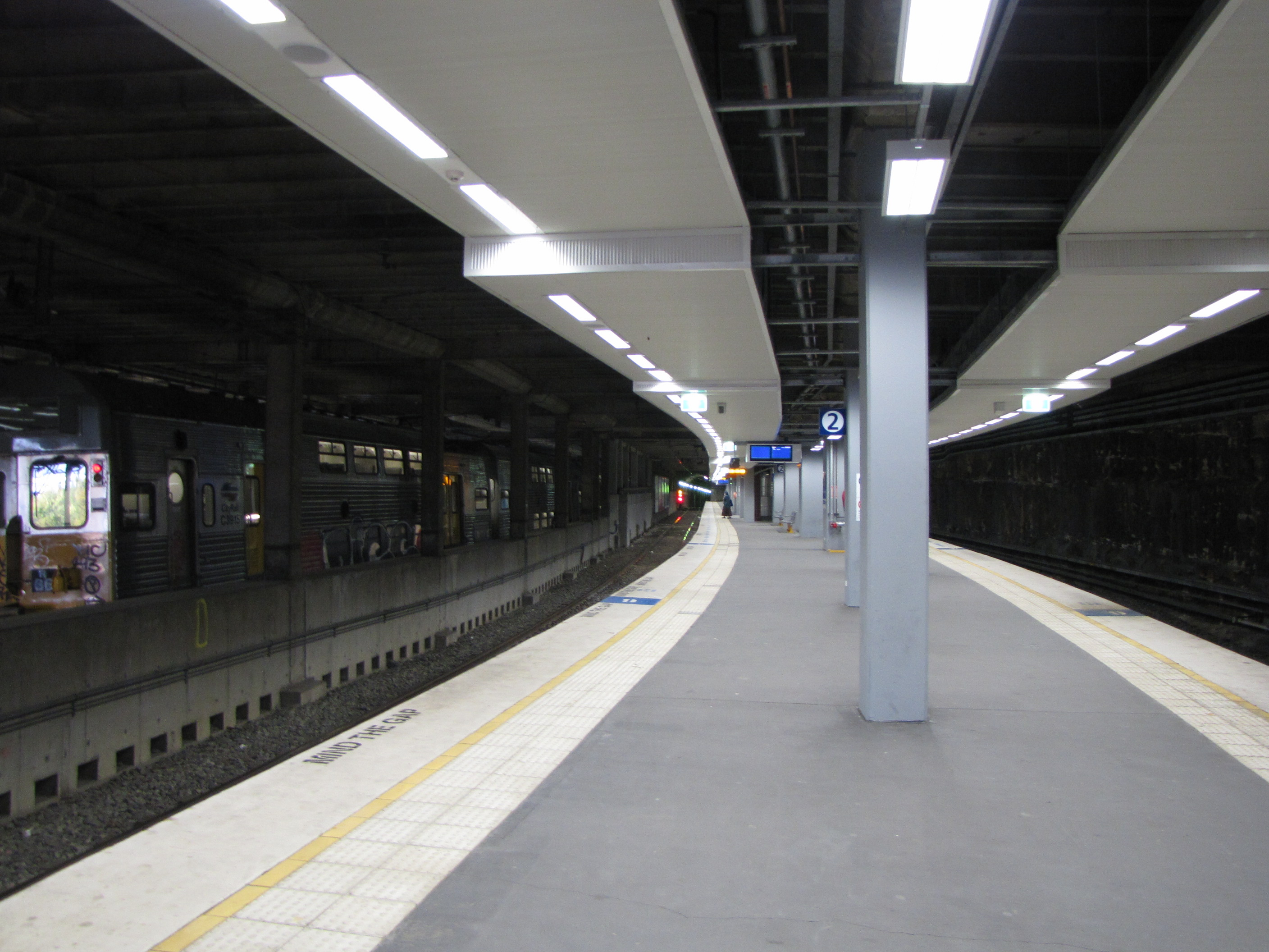 Looking towards the Waverton end of platforms 1 & 2 at North Sydney Railway Station after refurbishment. From